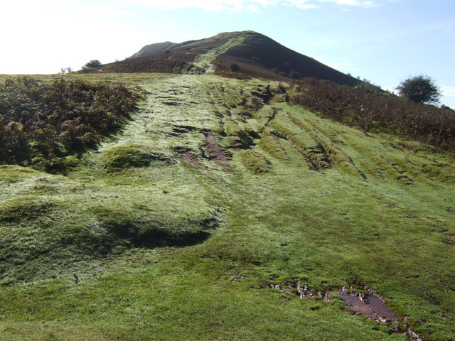 Mynydd Llangorse. The opposite view to 589098, south to the westernmost outlier of the Black Mountains. The heavy dew of an autumn morning glints silver in the sunshine.